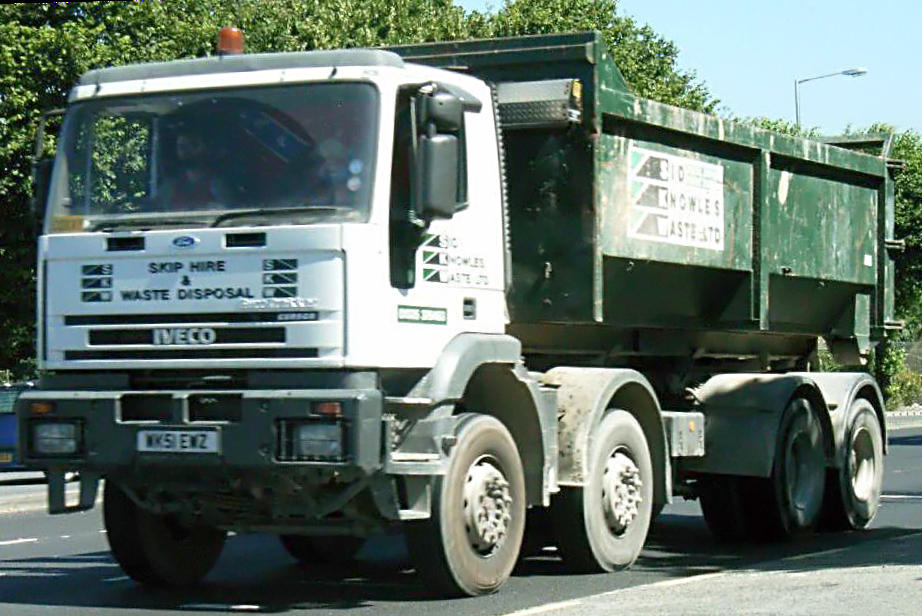 Ford Iveco tipper truck